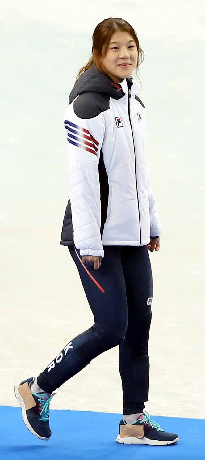 Team Korea won the gold medal in the ladies' 3,000-meter short track relay at the Sochi 2014 Olympic Games in Sochi, Russia. February 18, 2014 Iceberg Skating Palace, Sochi, Russia Photo: The Korean Olympic Committee Related Articles -English- 'Olympic Silver Medal is Invaluable': Shim Suk-hee -Russian- «Серебряная олимпийская медаль бесценна», - Шим Сук Хи -Deutsch- ,Olympische Silbermedaille ist von unschätzbarem Wert‘: Shim Suk-hee -日本語- シム・ソッキ、「五輪銀メダルに満足」 한국 쇼트트랙 여자 대표팀 ‘2014 소치 동계올림픽’ 쇼트트랙 여자 3000m 계주 금메달 획득 2014-02-18 러시아, 소치. 아이스버그 스케이팅 팰리스 사진: 대한체육회